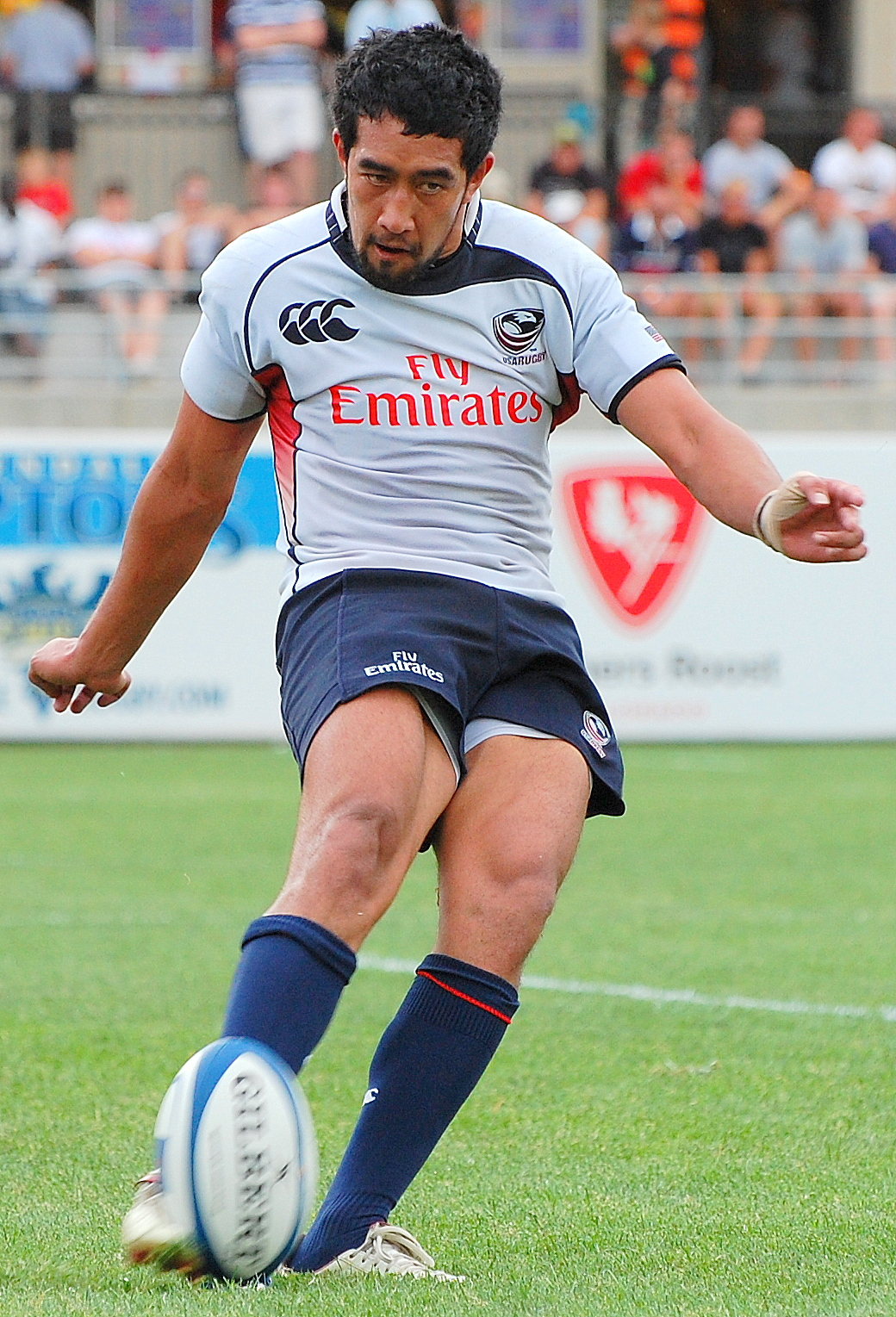 Valenese Malifa of the USA Eagles attempting a conversion against Russia during the 2010 Churchill Cup.